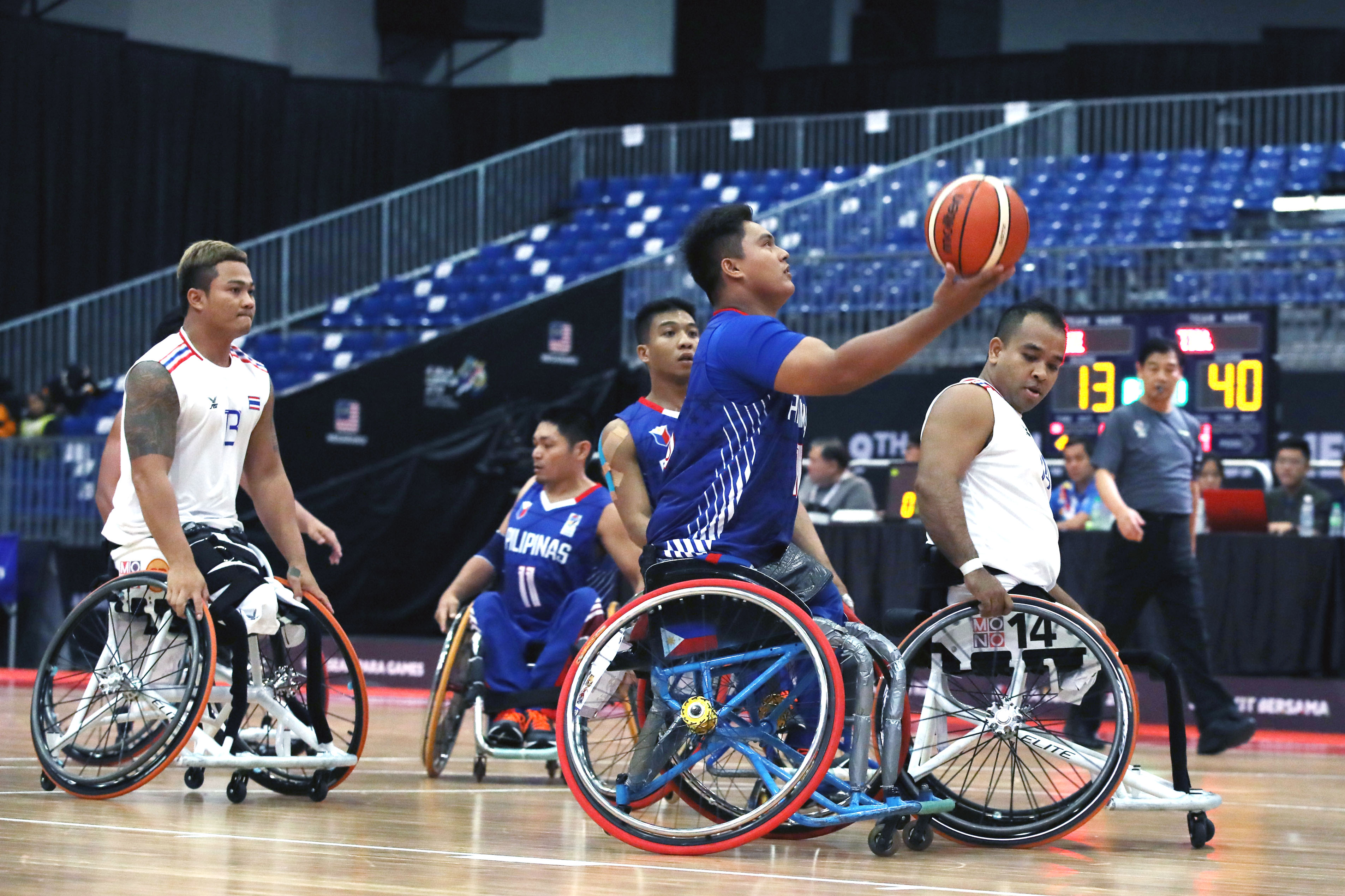 A Filipino cager goes for an easy layup over his Thai defender in the preliminary round of the 9th ASEAN Para Games Wheelchair Basketball held at the Malaysia International Trade and Exhibition Centre (MITEC) in Kuala Lumpur on Tuesday (September 19, 2017). (PNA photo by Joey O. Razon)